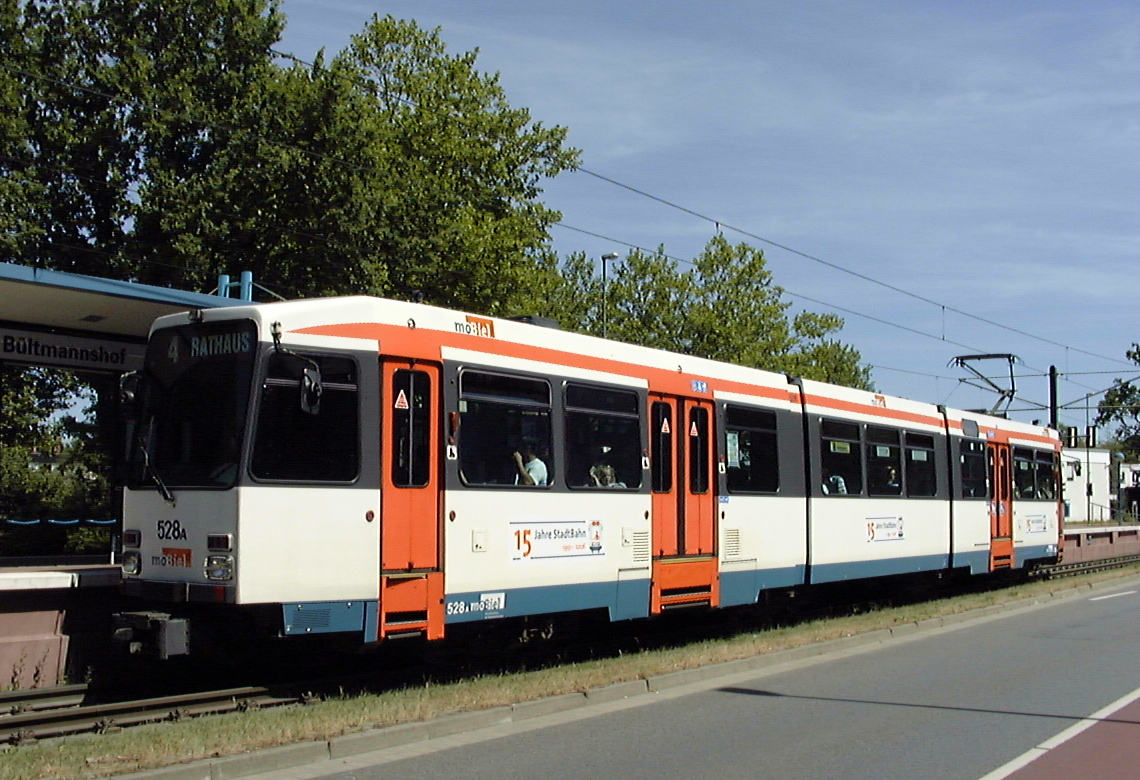 Bielefeld, Germany: Tram-train type M8C of the Stadtbahn Bielefeld at the tram stop “Bültmannshof”.